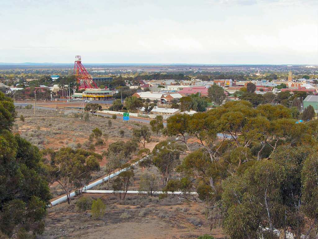 Photo taken and supplied by Brian Voon Yee Yap. View from the lookout.